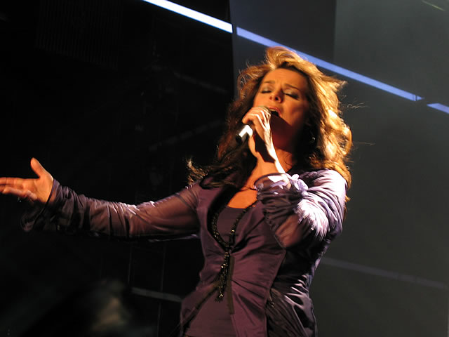 Carolin Fortenbacher at the Eurovision Song Contest national final rehearsals 2008.